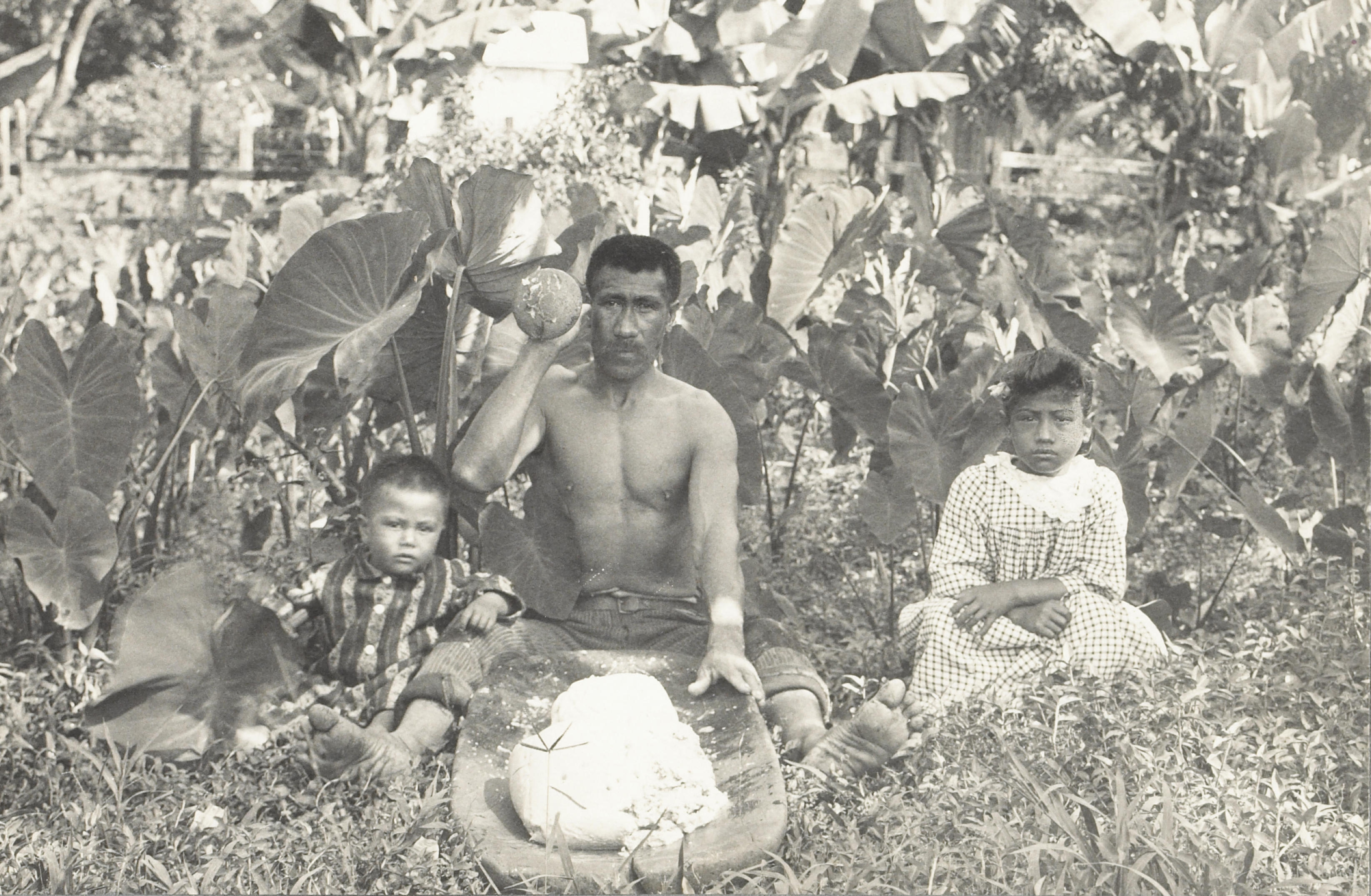 Native Hawaiian man pounding taro into poi with two children by his sides.